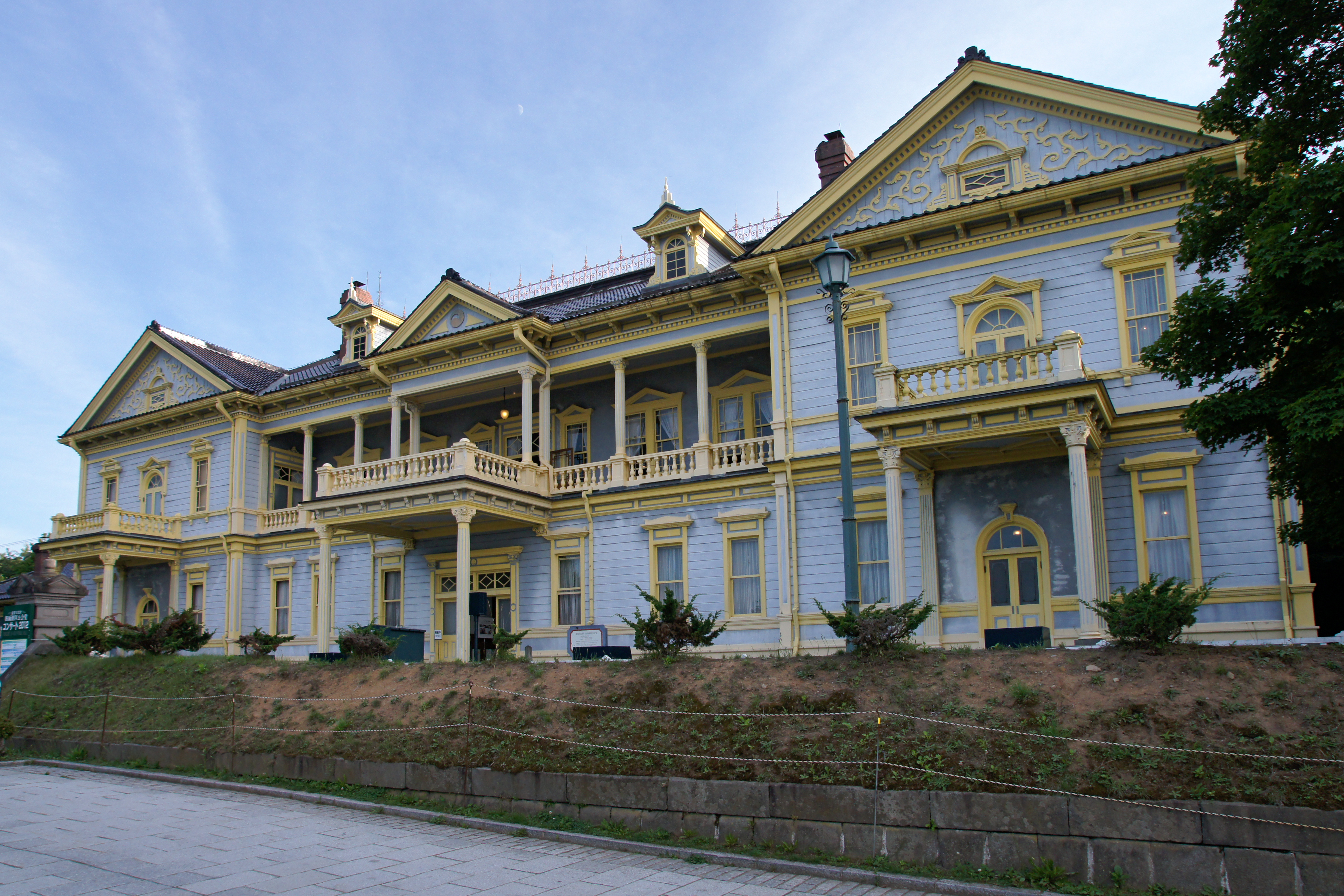 Old Public Hall of Hakodate Ward in Hakodate, Hokkaido prefecture, Japan